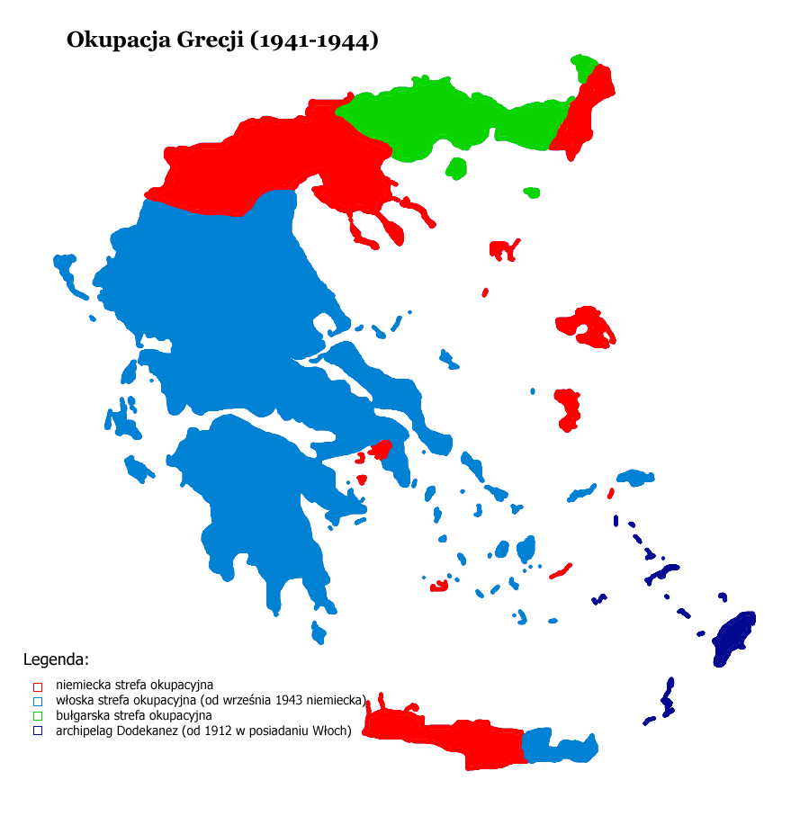 La triple occupation de la Grèce pendant la Seconde Guerre mondiale (1941-1945)